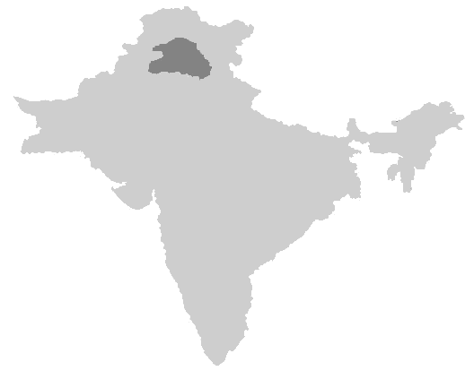 Area in India and Pakistan where dogri is spoken.